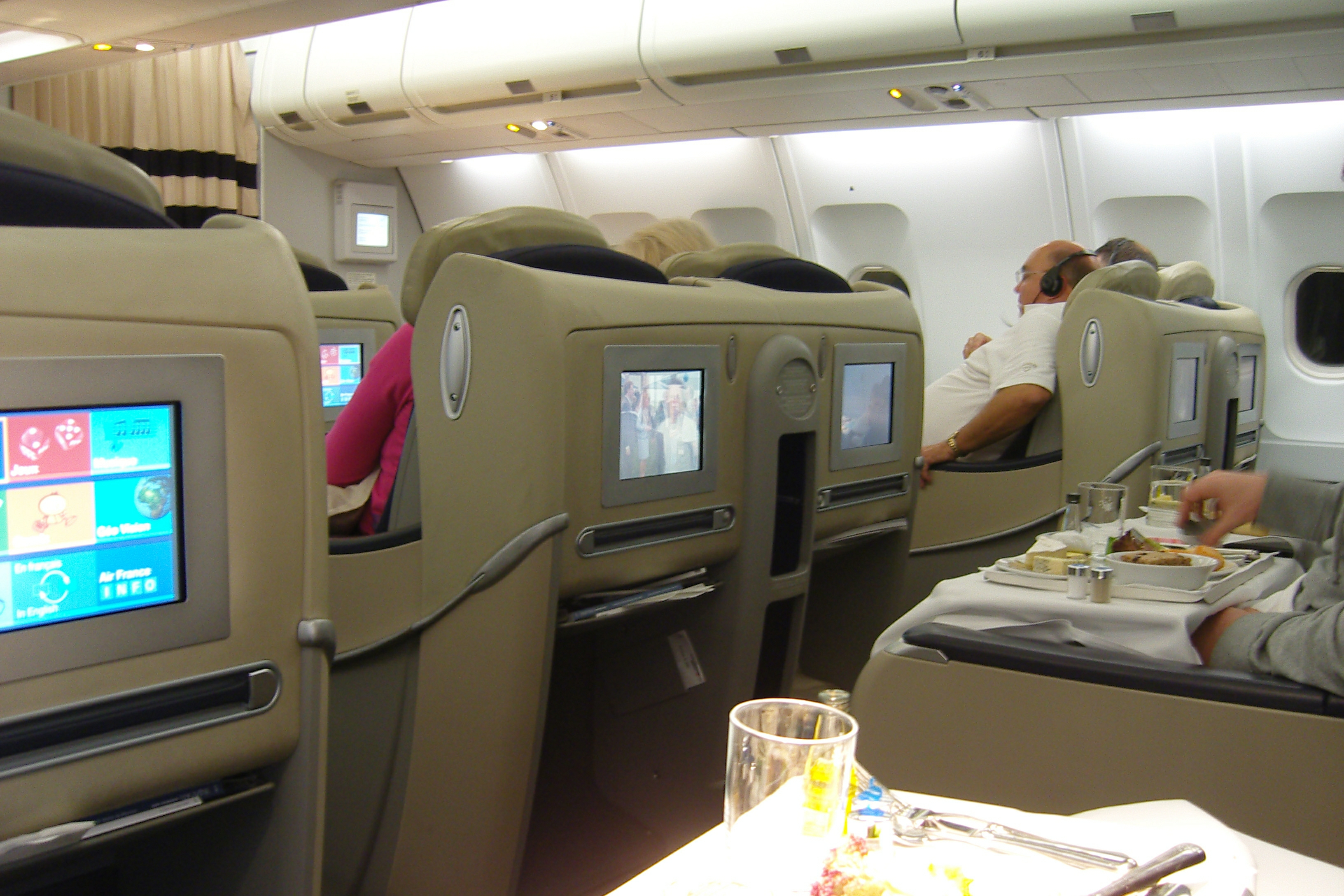 MSN 422 A330-203 AIR FRANCE FLIGHT PHL-CDG BUSINESS CLASS